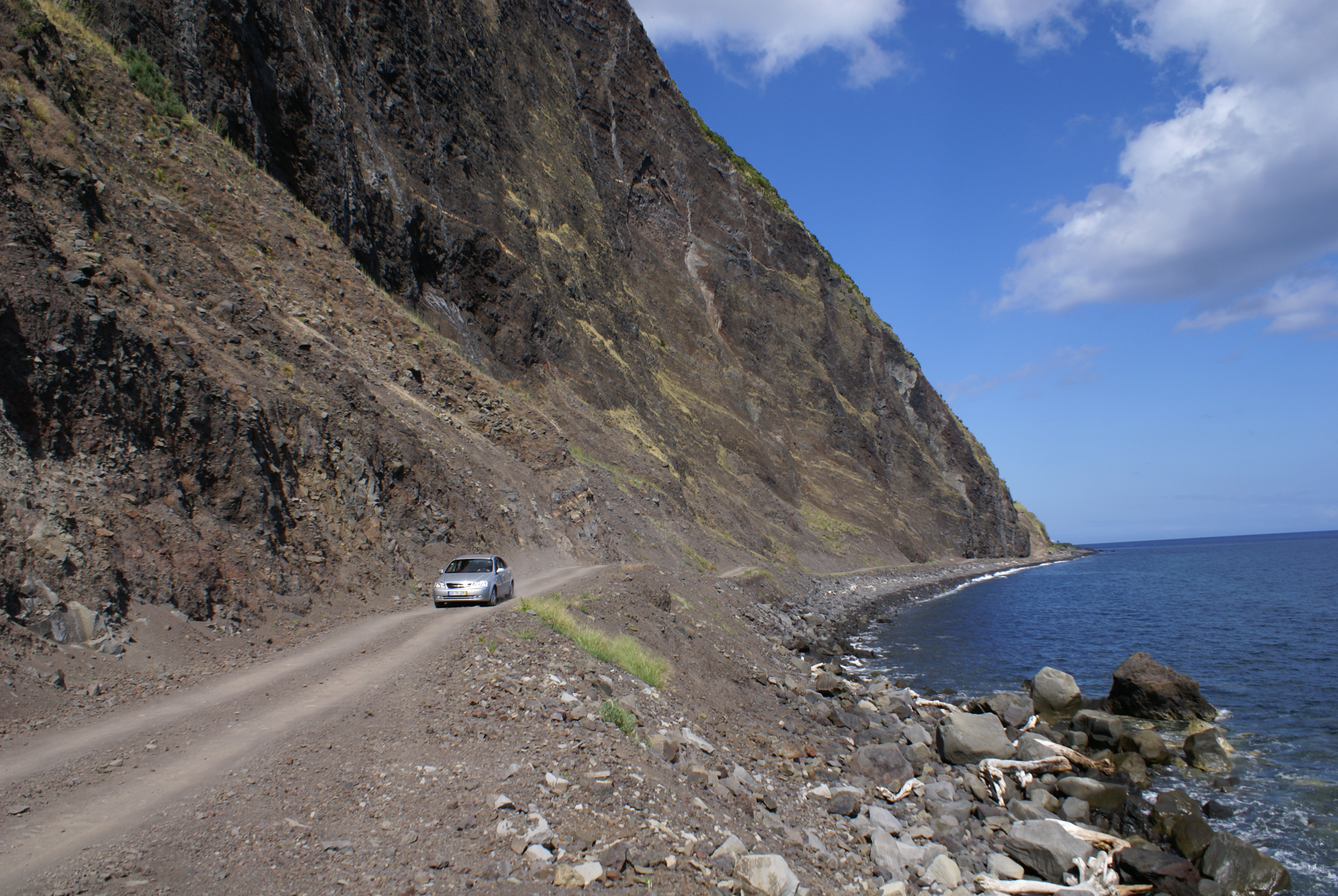 The access road to Fajã do Calhau on the southern coast of São Miguel, Azores, civil parish of Água Retorta, in the municipality of Povoação.